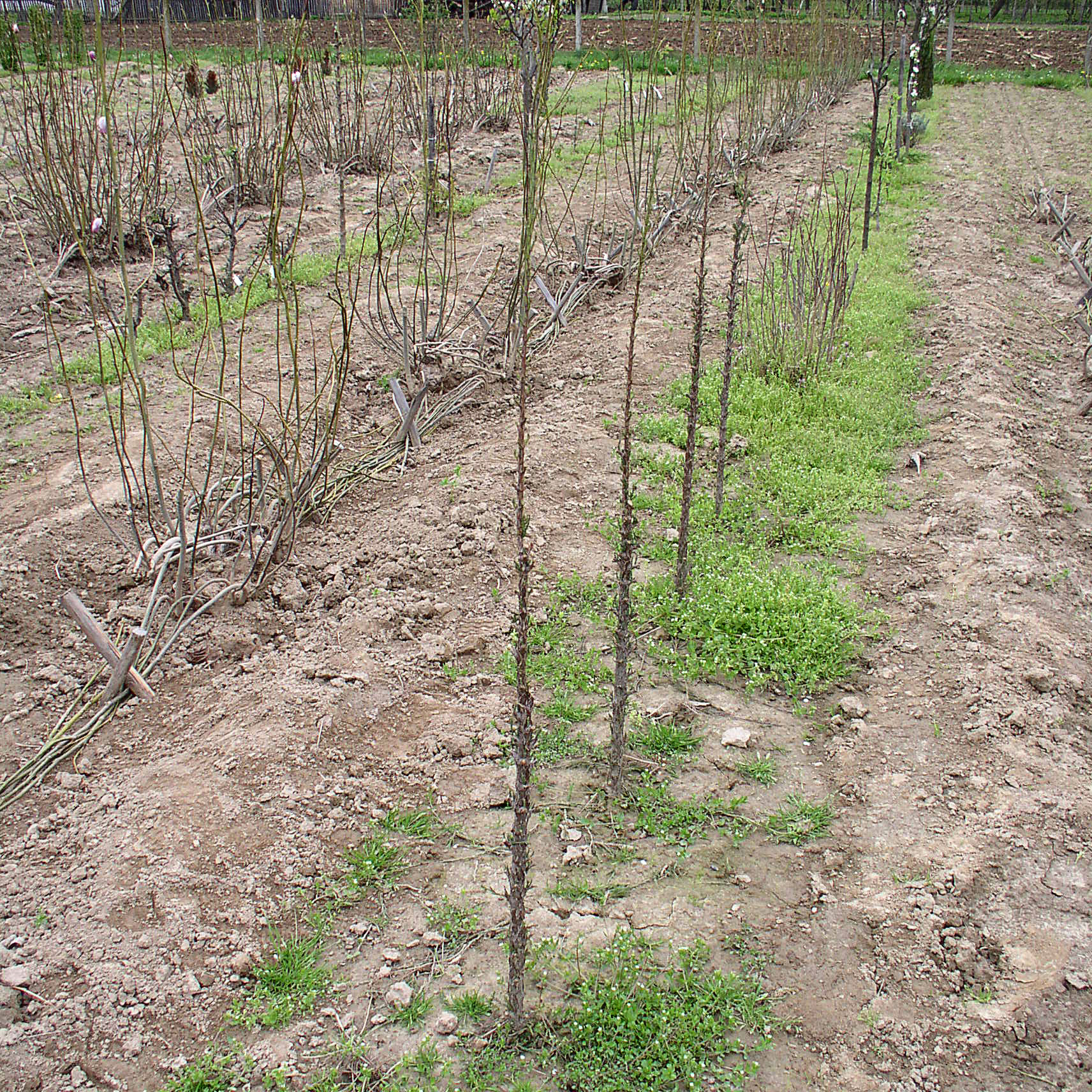 Juniperus virginiana 'Skyrocket' understock